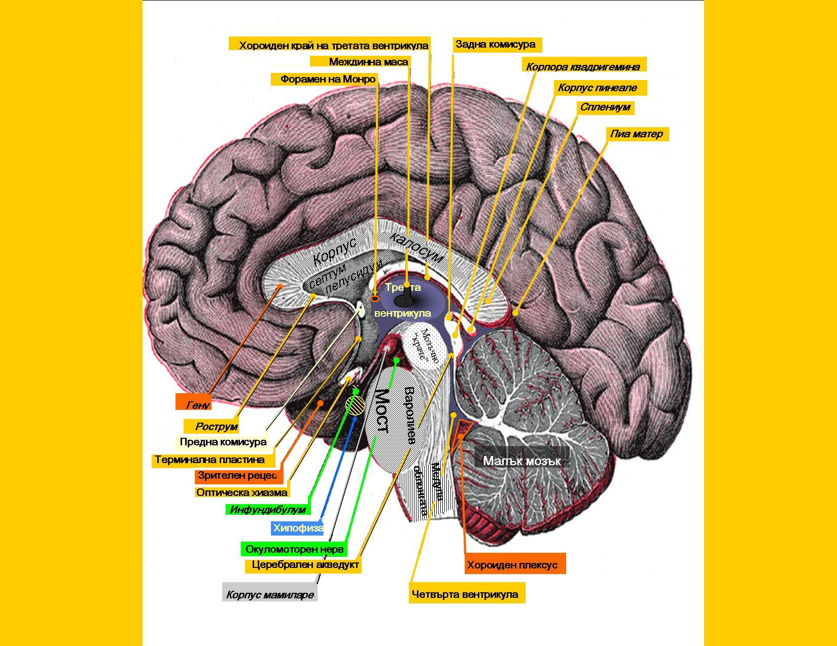 Midsagital section of the human brain with view of midsagital ventricular system: ventricles III and IV, choroid plexus and cerebral aqueductDate 22 December 2008Source this is a version of Gray720png file of Wiki's public Domain files, but with Bulgarian langage tagsAuthor A. Ranguelov